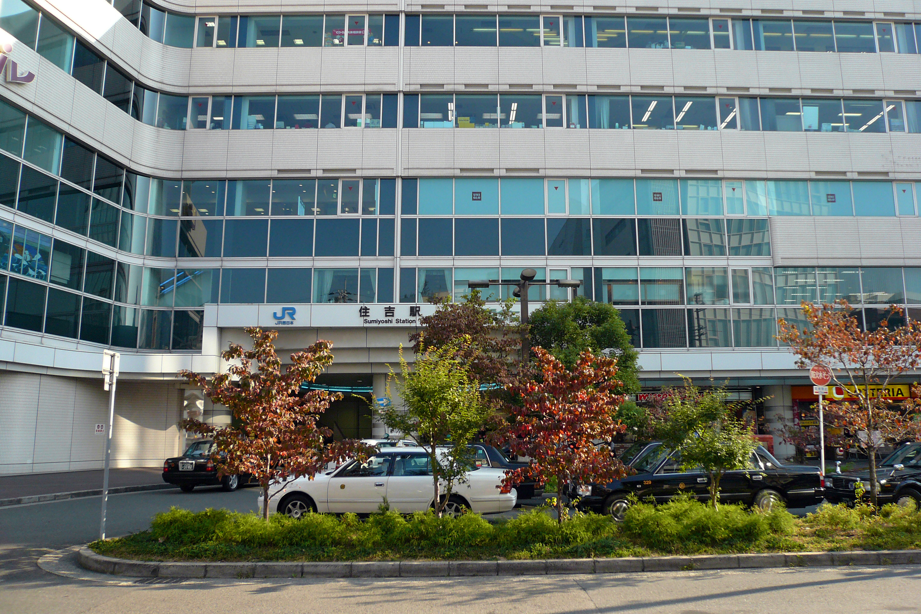 JR Sumiyoshi Station in Kobe, Hyogo prefecture, Japan